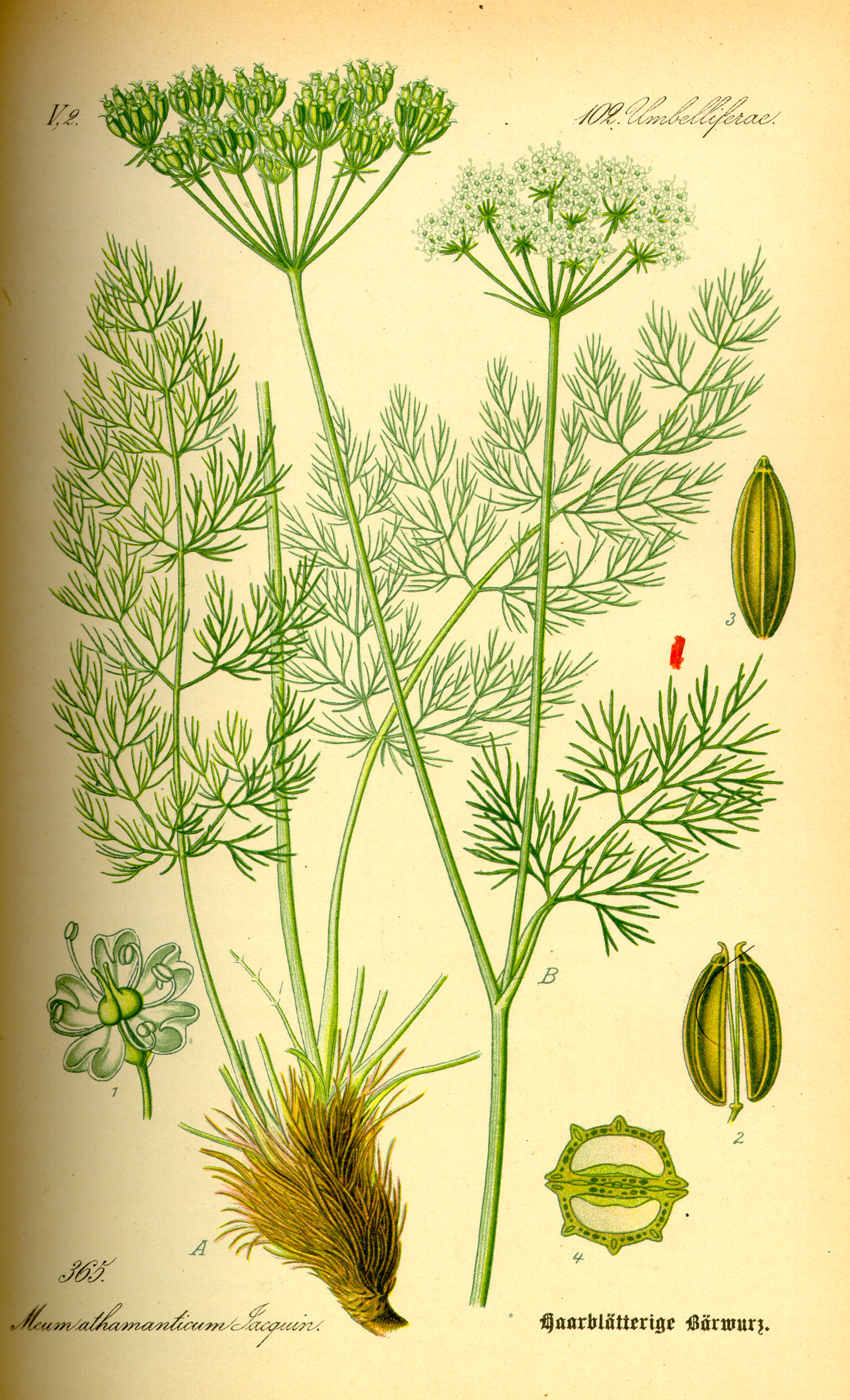 Spignel